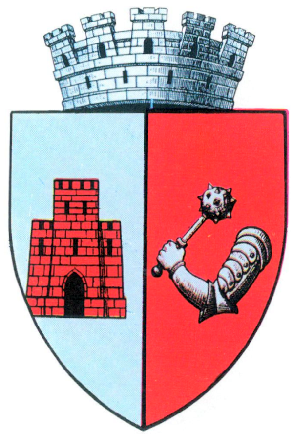 Interwar coat of arms of Khotyn, Hotin County, Kingdom of Romania.